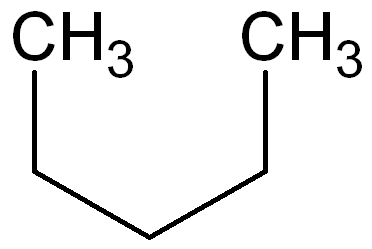 Pentane interferention